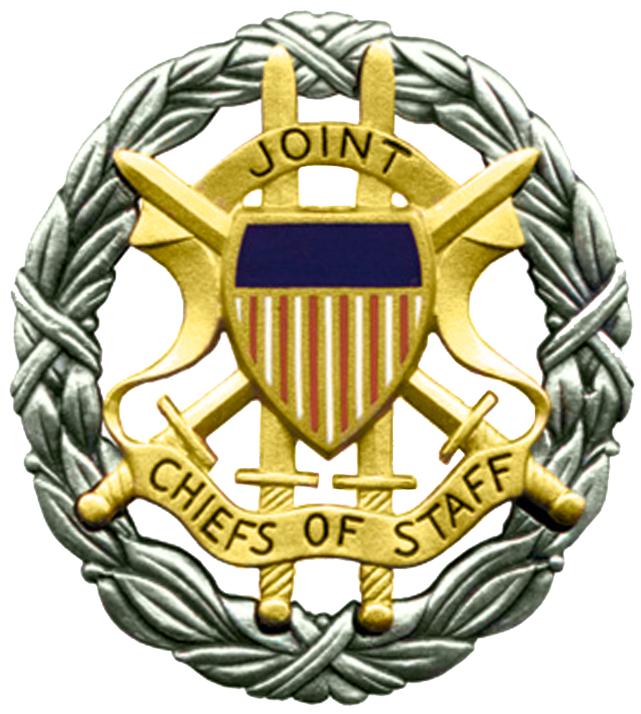 United States Joint Chiefs of Staff Badge